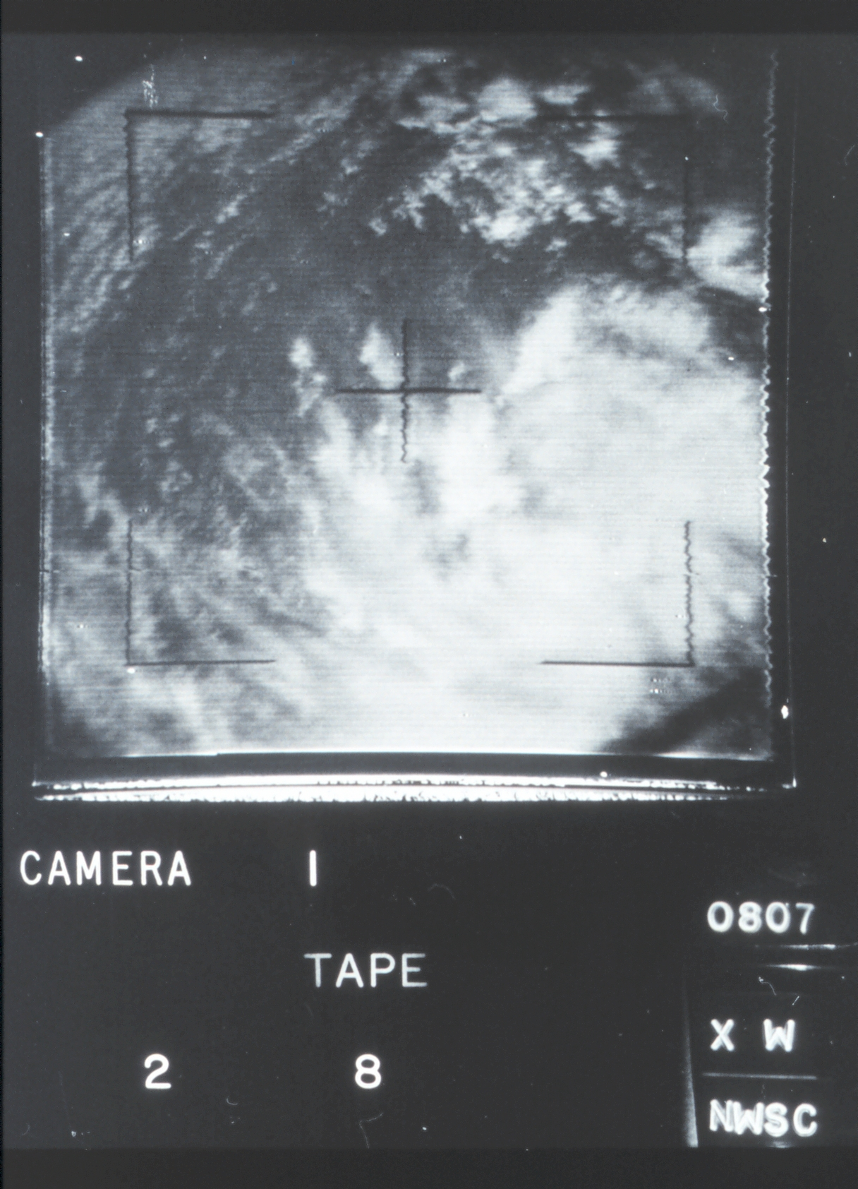 The beginnings of Hurricane Betsy as photographed from TIROS X. Latitude 13 N, Longitude 52 W.